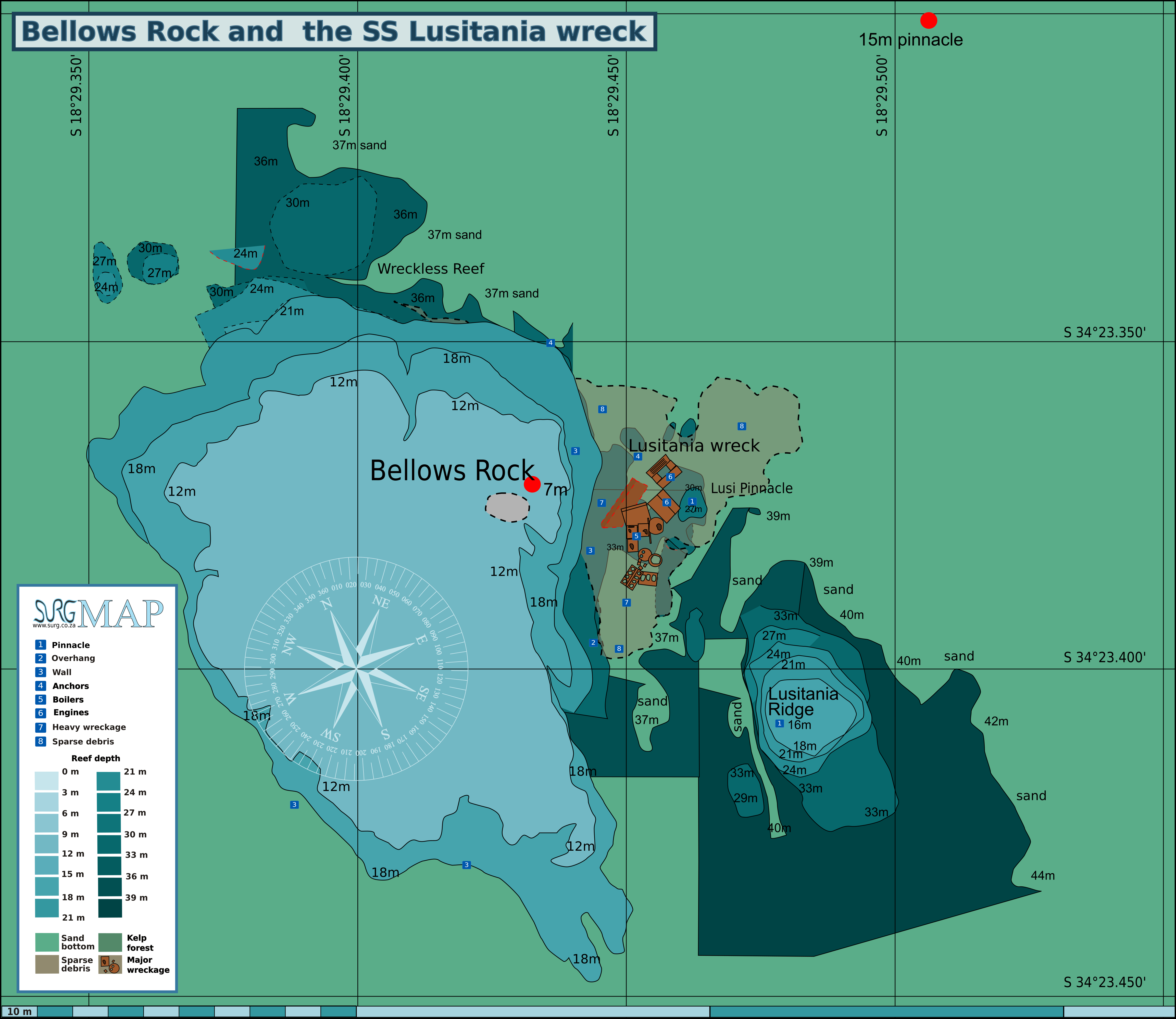 Sketch map of the dive site at the wreck of the SS Lusitania at Bellows Rock, Cape Point.